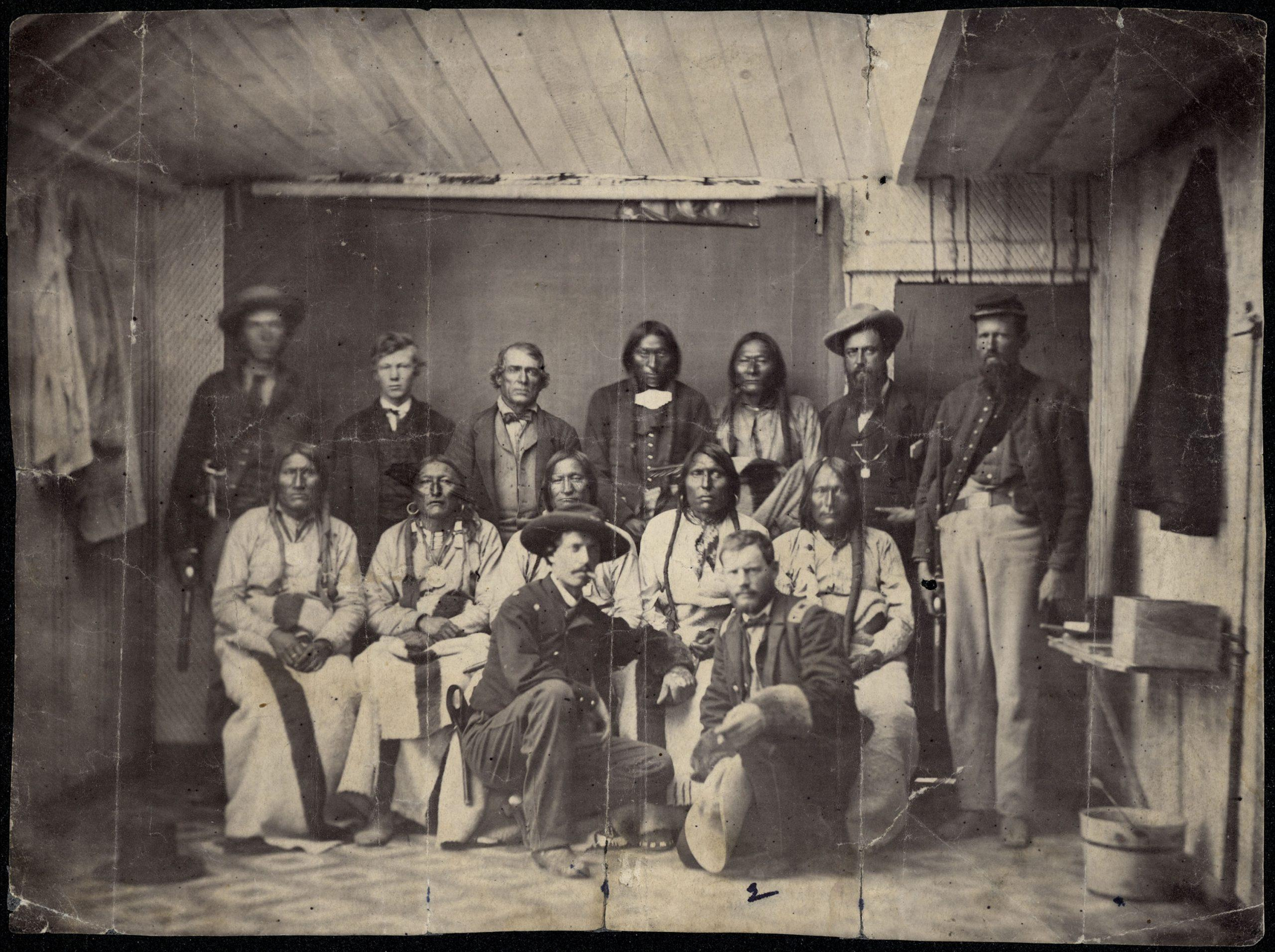 Camp Weld Conference "This rare photograph by an unknown photographer shows the ill-fated Cheyenne chief, Black Kettle, and a number of his associated at Camp Weld, on the outskirts of Denver. They had assembled there on September 28, 1864, for a peace council with Governor Evans and Colonel John M. Chivington, commander of the District of Colorardo. Chivington later attacked their camp in what is known as the Sand Creek massacre. Some of the identifications of Indians are uncertain. Front row, kneeling, left to right: Major Edward W. Wynkoop, commander at Fort Lyon and later agent for the Cheyennes and Arapahoes; Captain Silas S. Soule, provost marshal, later murdered in Denver. Middle row, seated, left to right: White Antelope (or perhaps White Wolf), Bull Bear, Black Kettle, One Eye, Natame (Arapaho). Back row, standing, left to right: Colorado militiaman, unknown civilian, John H. Smith (interpreter), Heap of Buffalo (Arapaho), Neva (Arapaho), unknown civilian, sentry. Another identification states that Neva is seated on the left and the Indian next to Smith is White Wolf (Cheyenne)."— Library, State Historical Society of Colorado, In: Wilbur Sturtevant Nye, Plains Indian raiders : the final phases of warfare from the Arkansas to the Red River, with original photographs by William S. Soule. University of Oklahoma Press, 1st edition, 1968, ISBN 0806111755, p188.